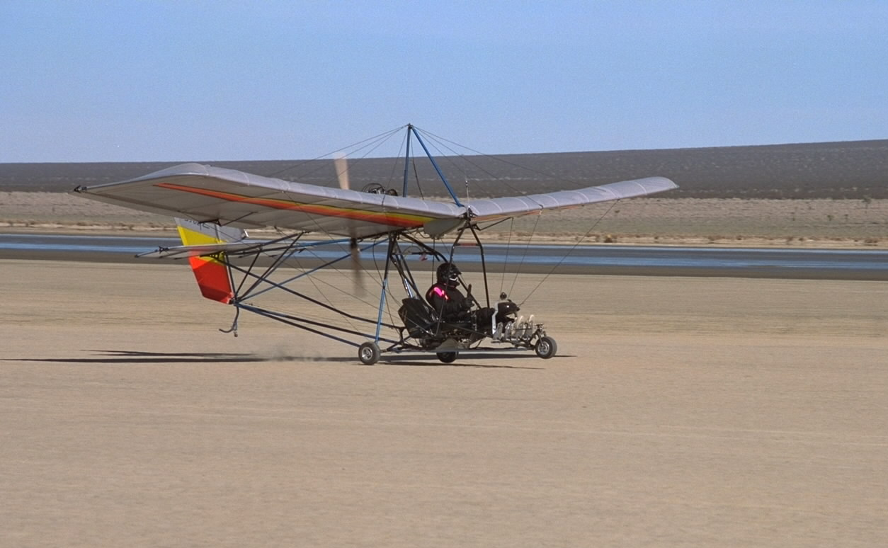 The El Mirage Off-Highway Vehicle (OHV) Area is located in the Mojave Desert on the western edge of San Bernardino County near the Los Angeles County Line. This OHV attracts a variety of activities. The areas of interests include El Mirage Dry Lakebed, the Shadow Mountains, El Mirage Basin, and the Twin Hills area. This makes up a 24,000 acre of public and private land. Elevations range from about 2,800 feet at the El Mirage Dry Lake to more that 3,800 feet in the Shadow Mountains. Most visitors ride motorcycles, ATVs, or tour in four-wheel drive vehicles. There is a road network in place so visitors may camp in most sections of El Mirage. This area is also used extensively for competitive racing events and commercial filming by permit. El Mirage's unique flat lakebed is a destination for many visitors. There is ultra-light and other aircraft activity that would not usually be found in other riding areas. There are several opportunities for hiking, rock scrambling, rock hounding, and wildlife watching. El Mirage has desert tortoises, a state and federally-listed threatened species. Photo by BLM.